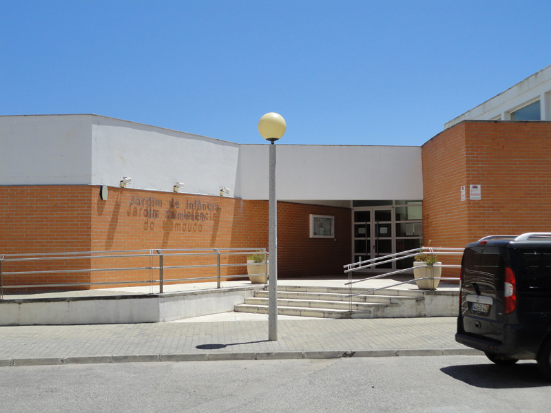 Kindergarden of Samouco